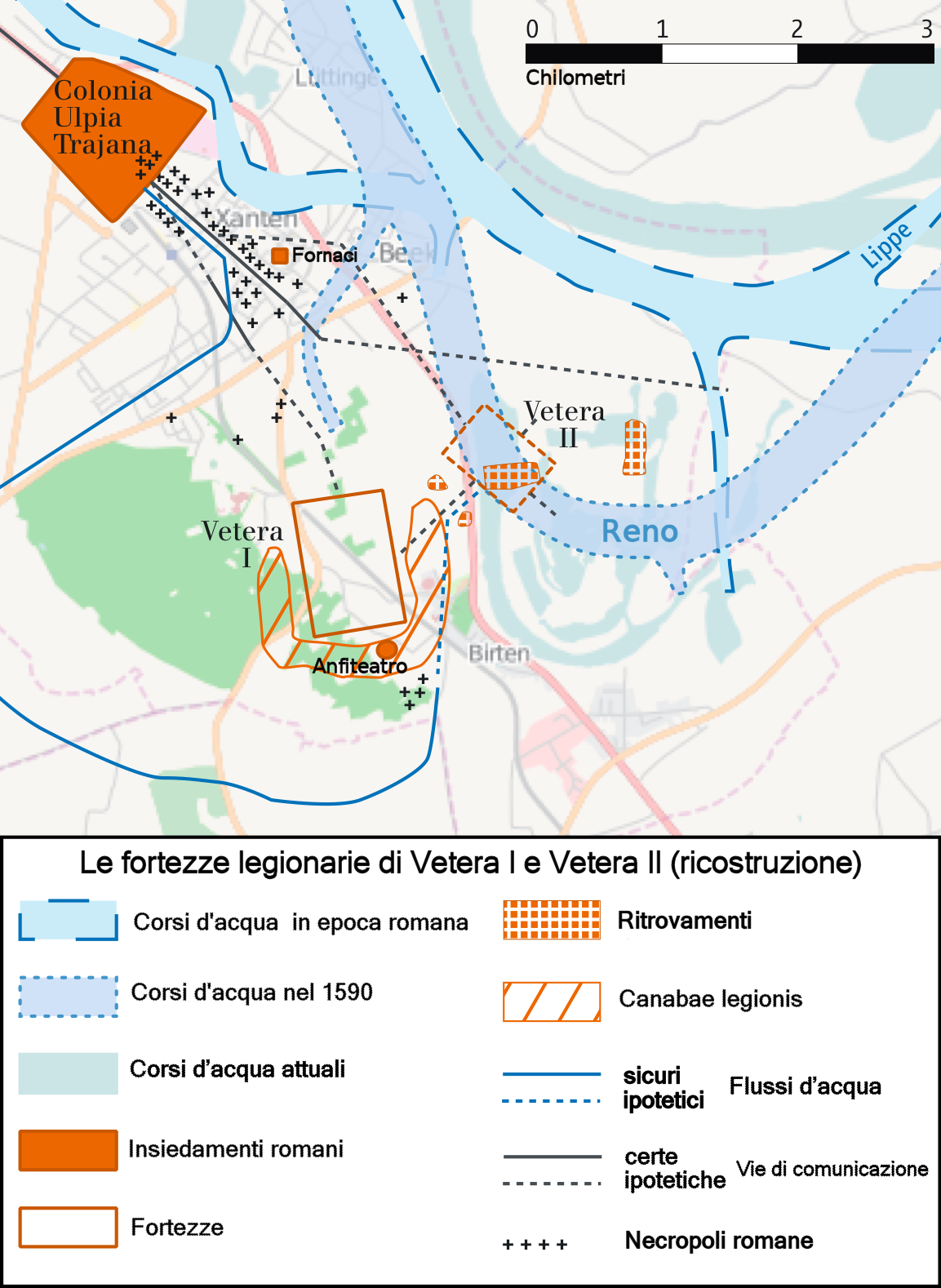 Italian version di File:Vetera.png